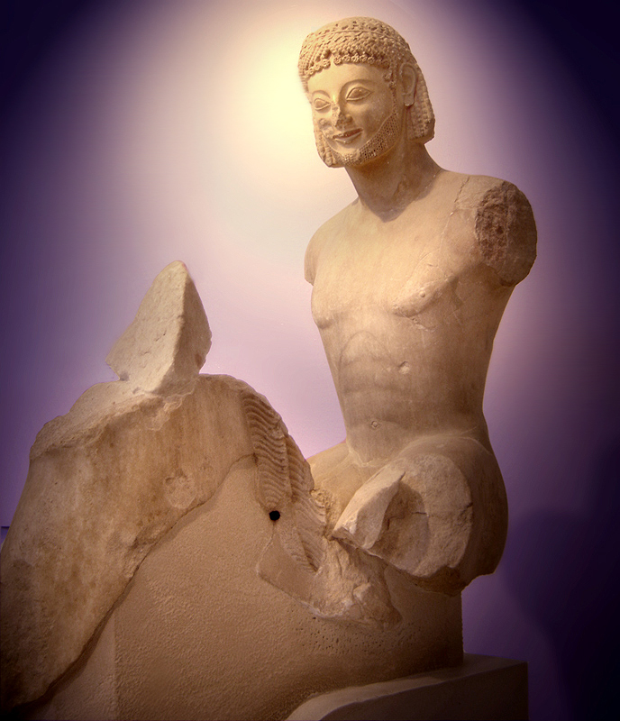 Equestrian Kouros, Acropolis Museum, Athens.